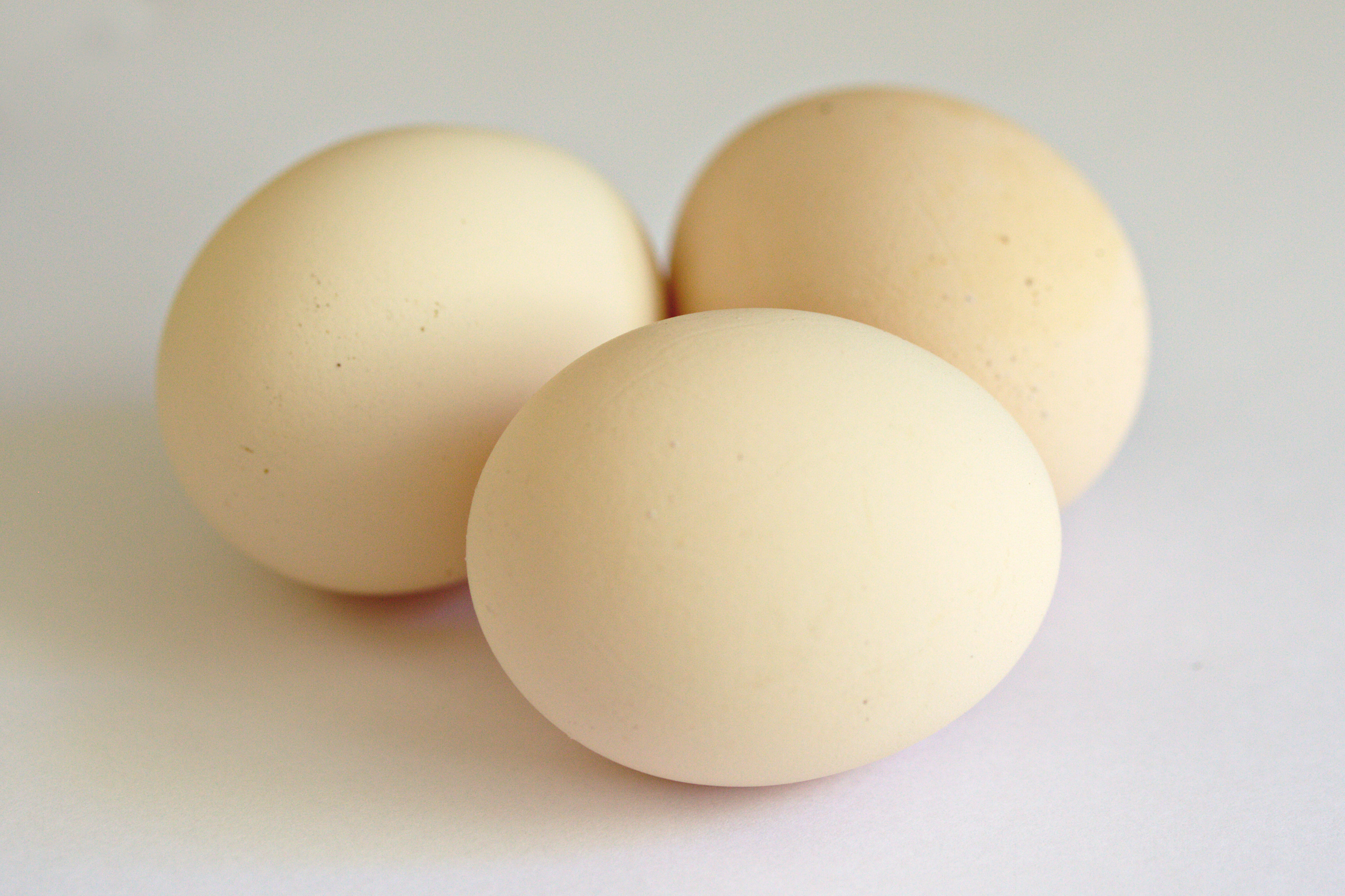 56g, 58g and 50g (clockwise from top-left), typically coloured eggs from a one year old Norfolk Grey hens.